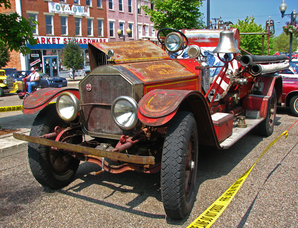 Engine No. 3 of the Portsmouth, Ohio Fire Department. It's an old American LaFrance. I don't know the vintage but it had a crank for starting. Seeing it recalls memory of my hometown of Worthington, Ohio raising $100 in contributions to buy a windshield for the fire engine. Worthington addes Seagrave engine to replace a Model T engine when I was in grade school during the thirties.